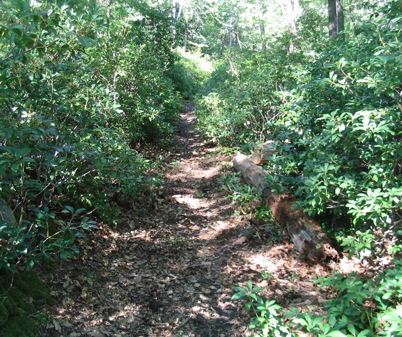 Photo of the lower portions of Sassafrass trail by Raymond Crew on July 23, 2005. This image is released into the public domain.